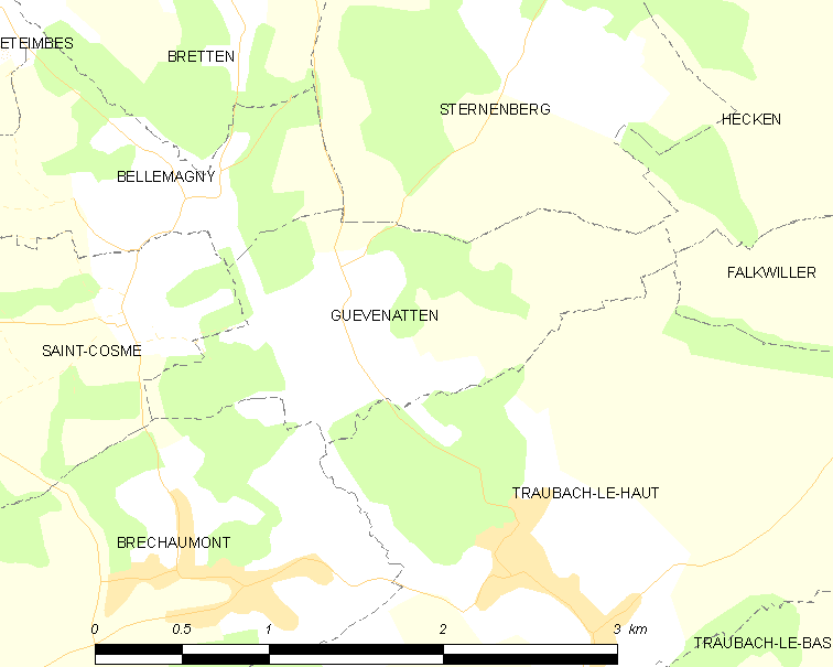 Map of French municipality